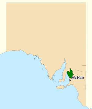 Incorporates or developed using Administrative Boundaries ©PSMA Australia Limited licensed by the Commonwealth of Australia under Creative Commons Attribution 4.0 International licence (CC BY 4.0). Derived from State and Territory Boundaries from the Australian Bureau of Statistics under Creative Commons Attribution 2.5 Australia license (CC BY 2.5 AU)